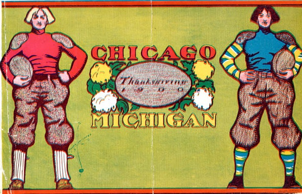 Souvenir program from 1900 for the Chicago–Michigan football rivalry game